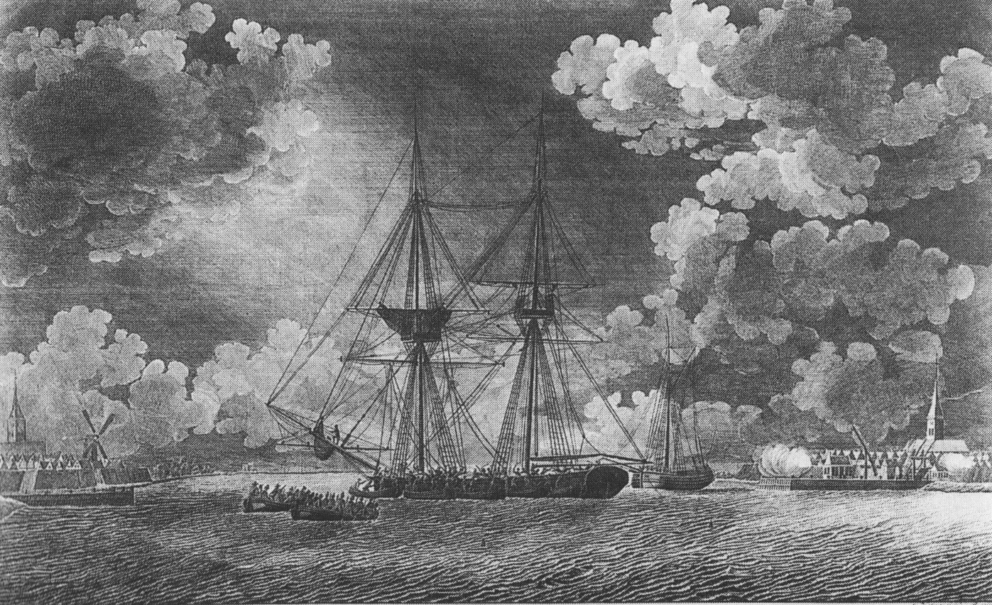 Expedition in the Scheldt Estuary - 20th March 1793 - capture of French ships bij Dutch Navy sloops